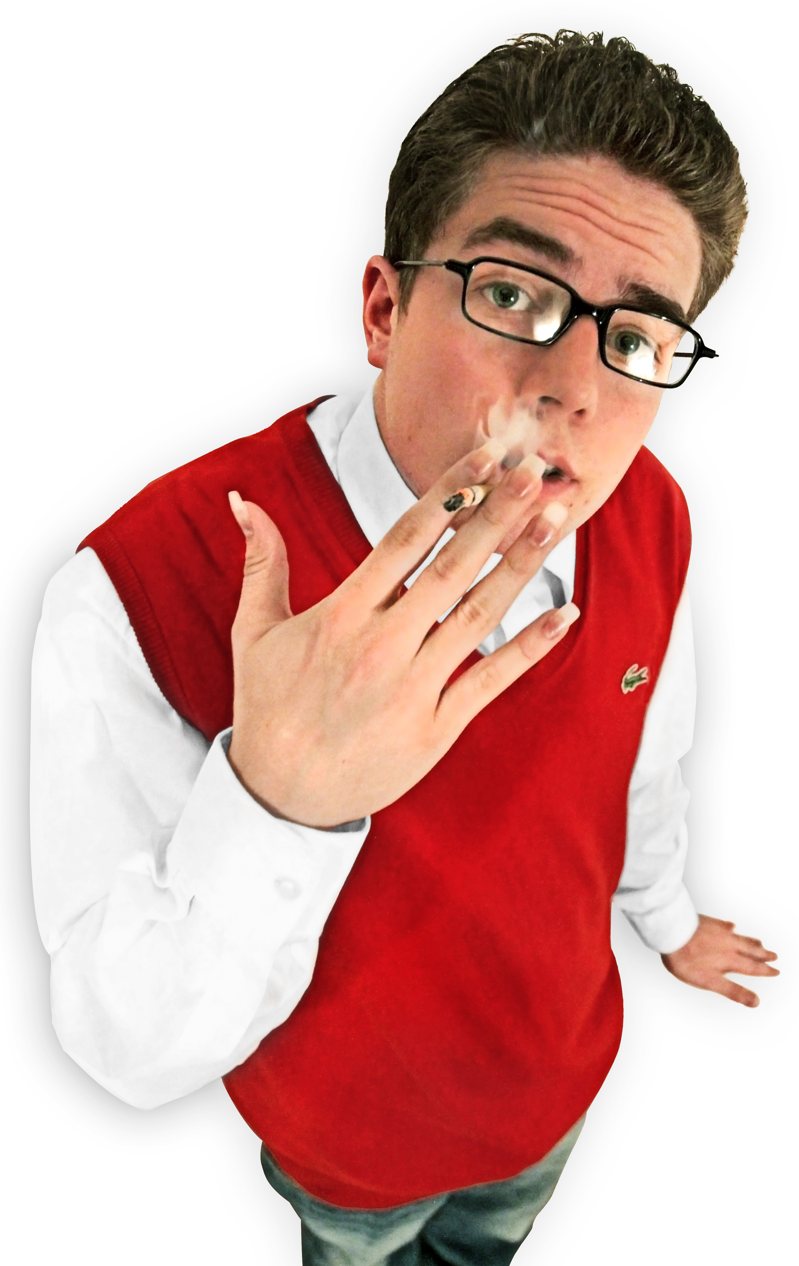 Pressefoto des Rappers DCVDNS (2012)